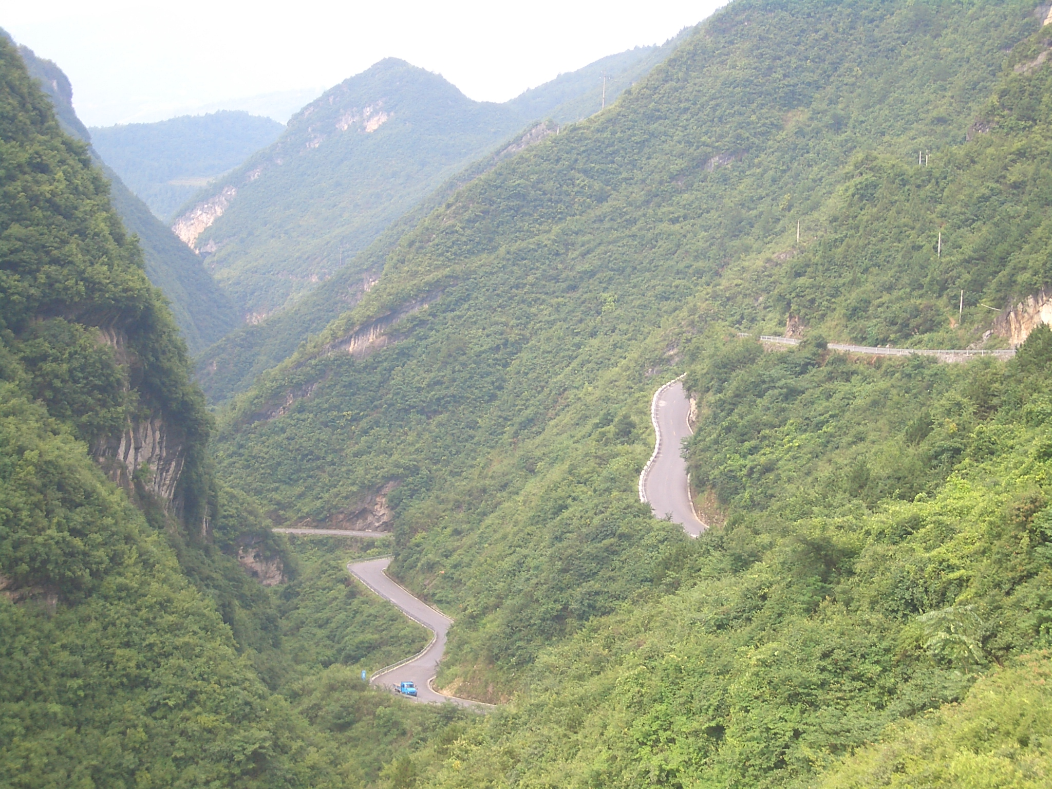 On National Hwy 209 (G209) in Xingshan County, Hubei. Climbing from Gaoqiao Township (in the valley of the Liangtai River) to Wujiaping (on the crest of mountain range, near Mt. Wanchaoshan)